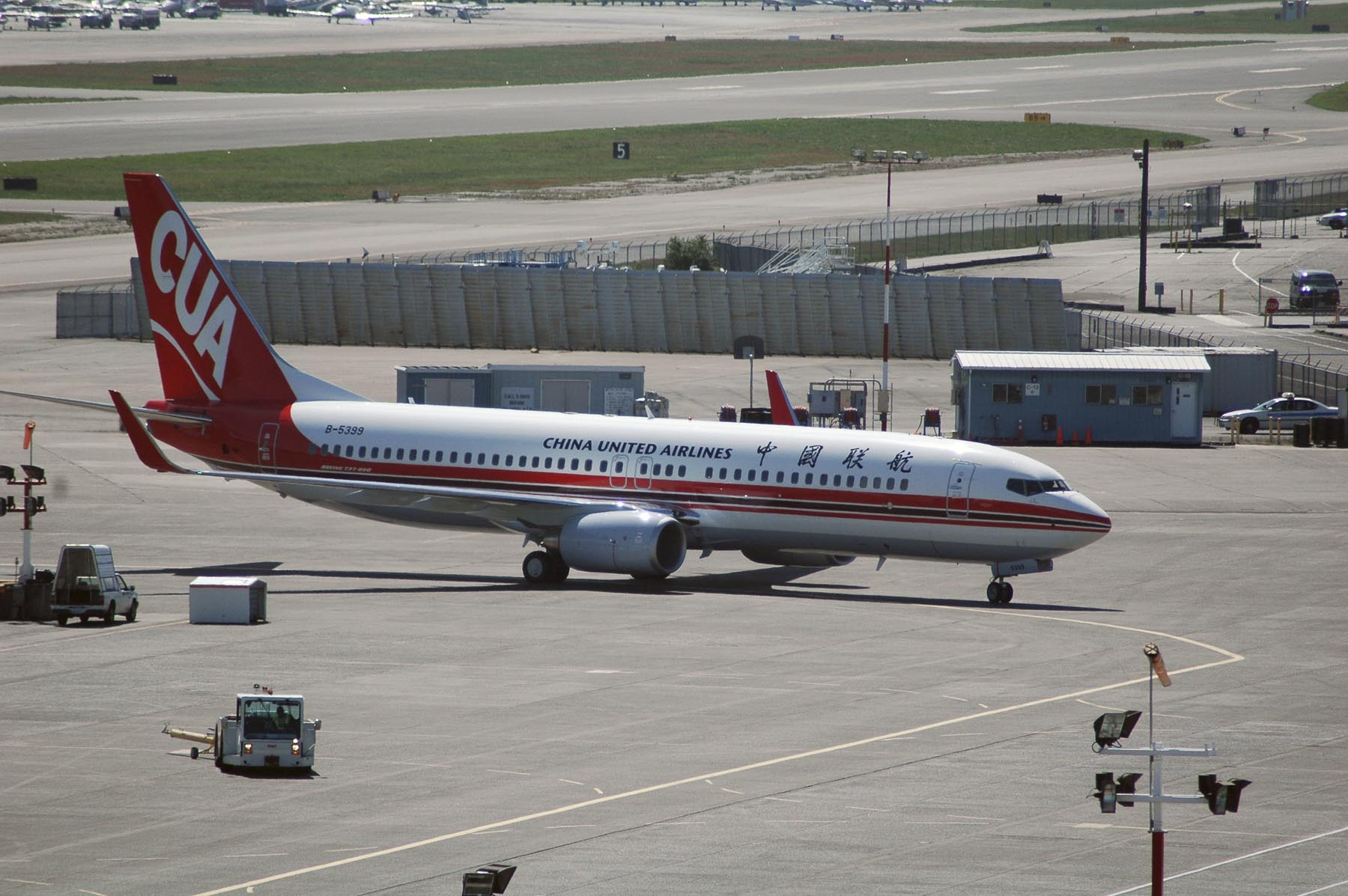 China United Airlines B737-800